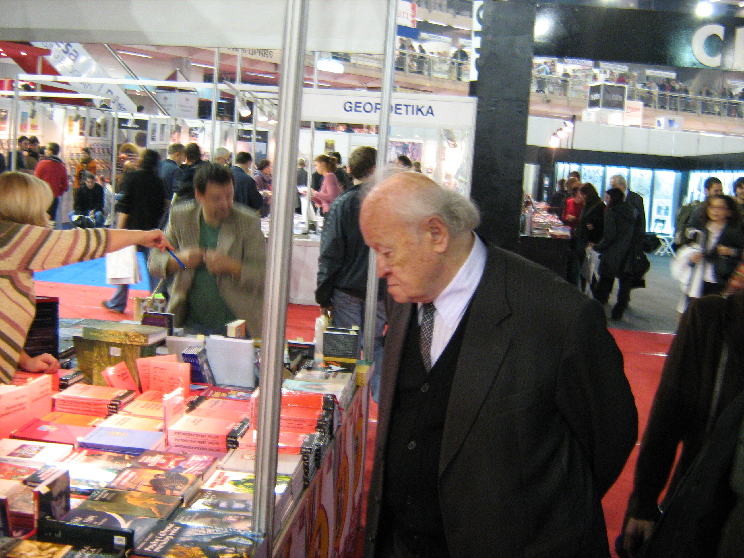 Mihailo Marković (1923-2010), Belgrade Book Fair October 22, 2007.